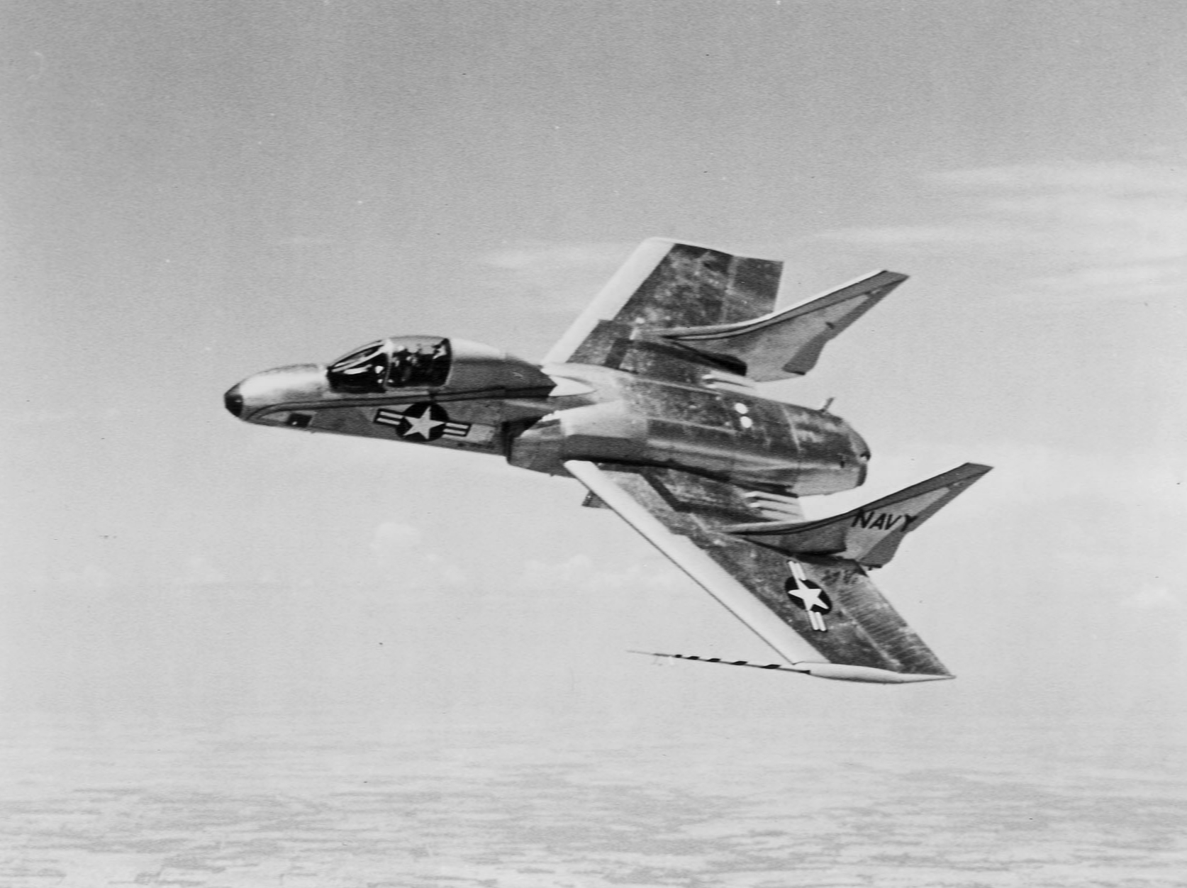 A U.S. Navy Vought F7U-3P Cutlass reconnaissance plane in flight. 12 built F7U-3Ps were built, but none saw operational service, being used only for research and evaluation purposes.